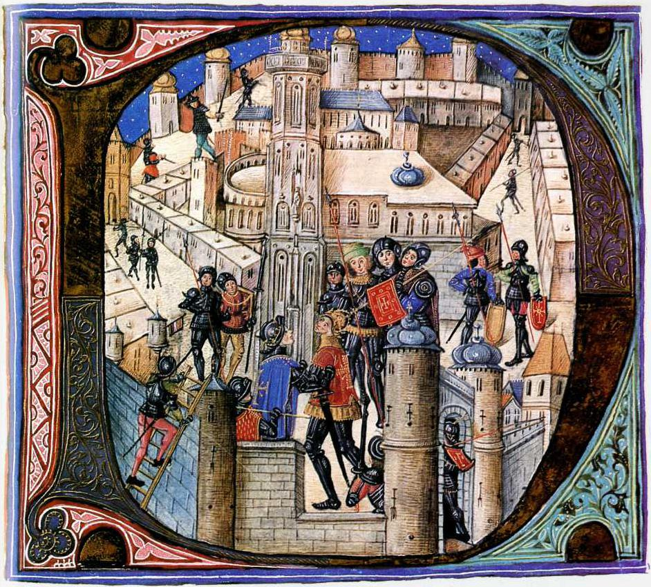 Armoured Hungarian infantry in a castle. National Széchényi Library, Budapest 1480-1488. Probably made in Buda. Parchment. The most richly illuminated manuscript in the Corvina collection is the second volume Deus in loco sancto suo; deus, qui inhabitare facit unanimes in domo; ipse dabit uirtutem et fortitudinem plebi sue. Psalm 67 6 Who is the father of orphans, and the judge of widows. God in his holy place: 7 God who maketh men of one manner to dwell in a house: Who bringeth out them that were bound in strength; in like manner them that provoke, that dwell in sepulchres. 36 God is wonderful in his saints: the God of Israel is he who will give power and strength to his people. Blessed be God.